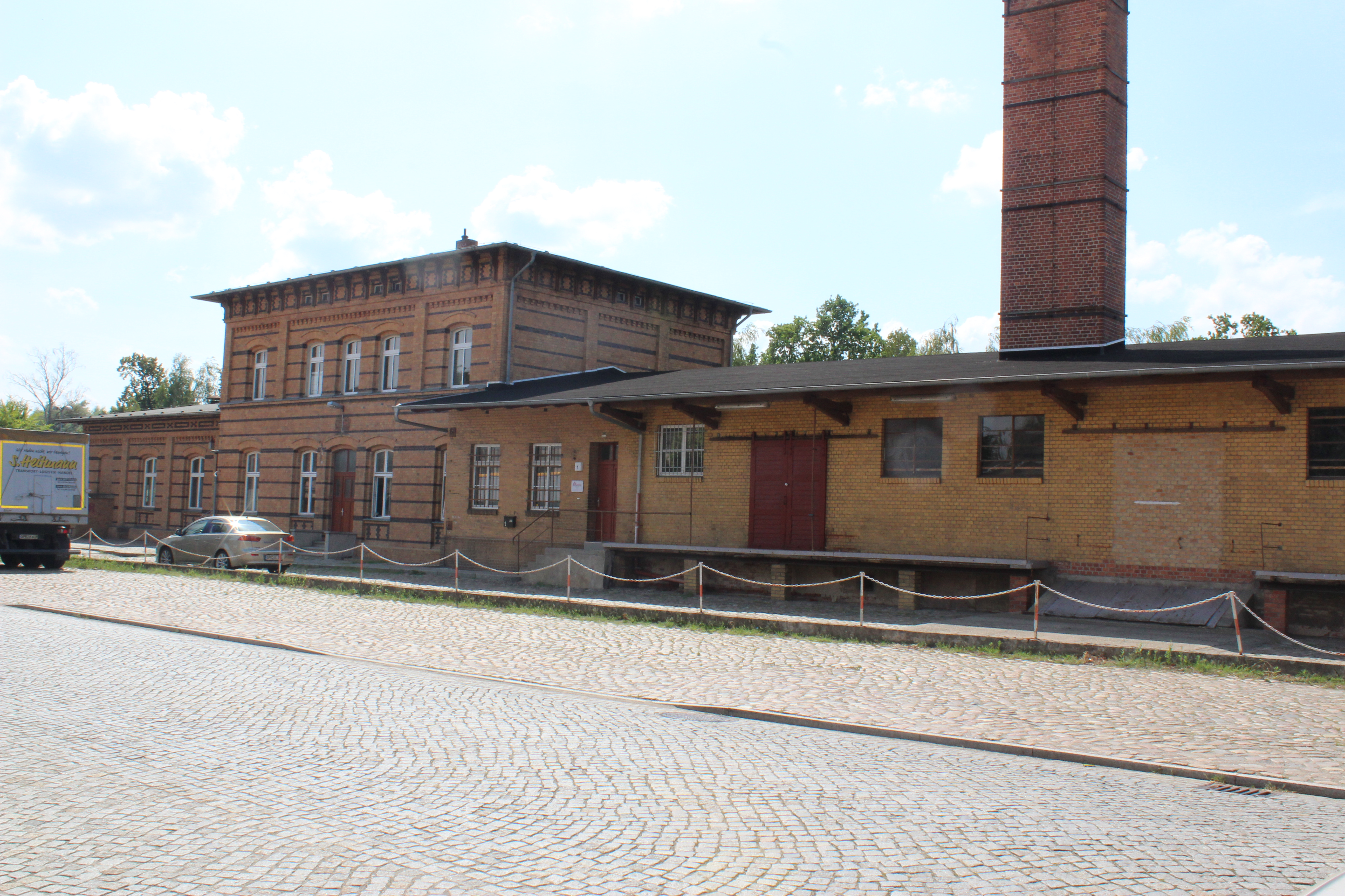 train station Kyritz, station building, street side